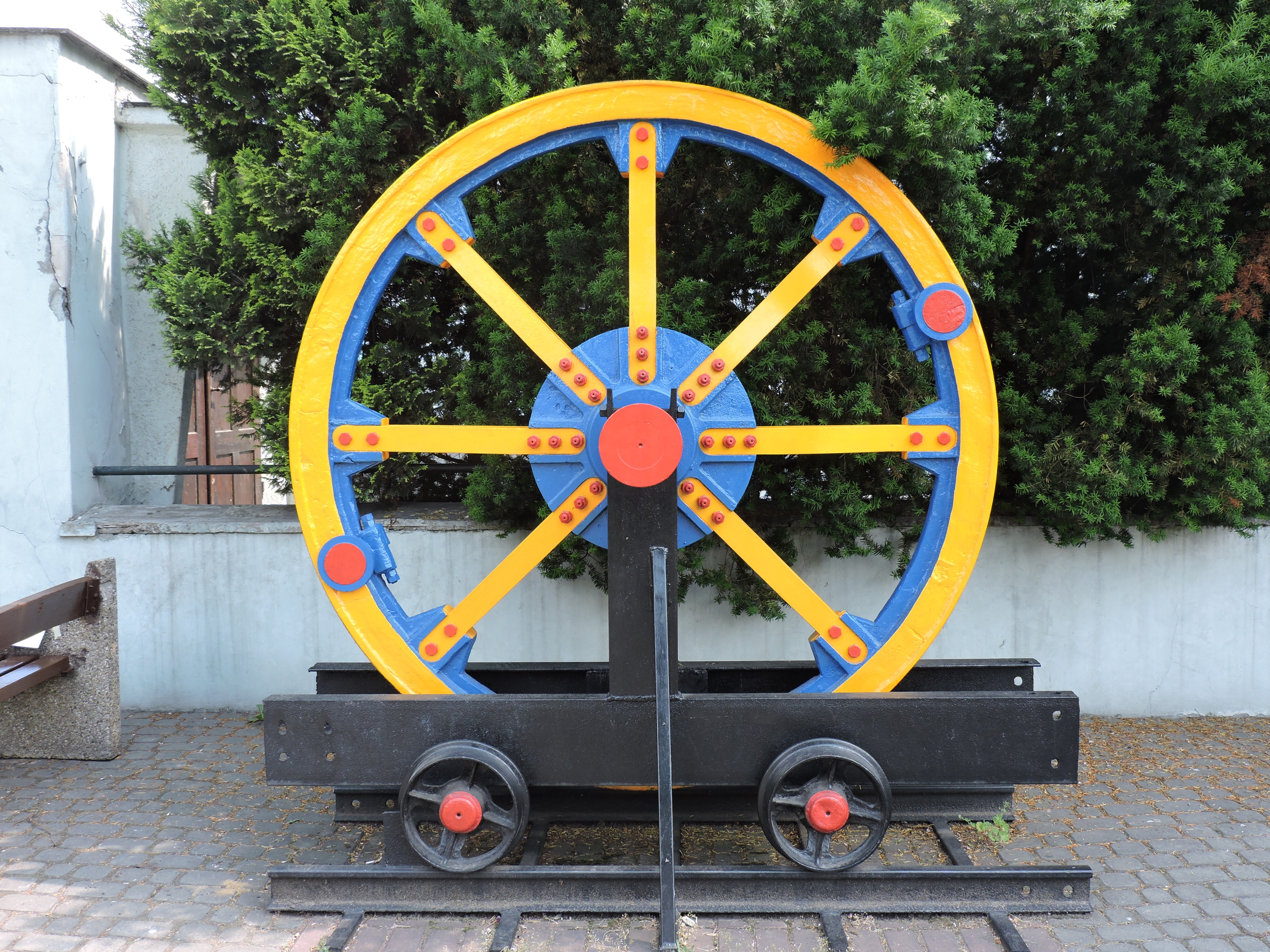 Pulley wheel from 1 Maja Coal Mine in Wodzisław Śląski.